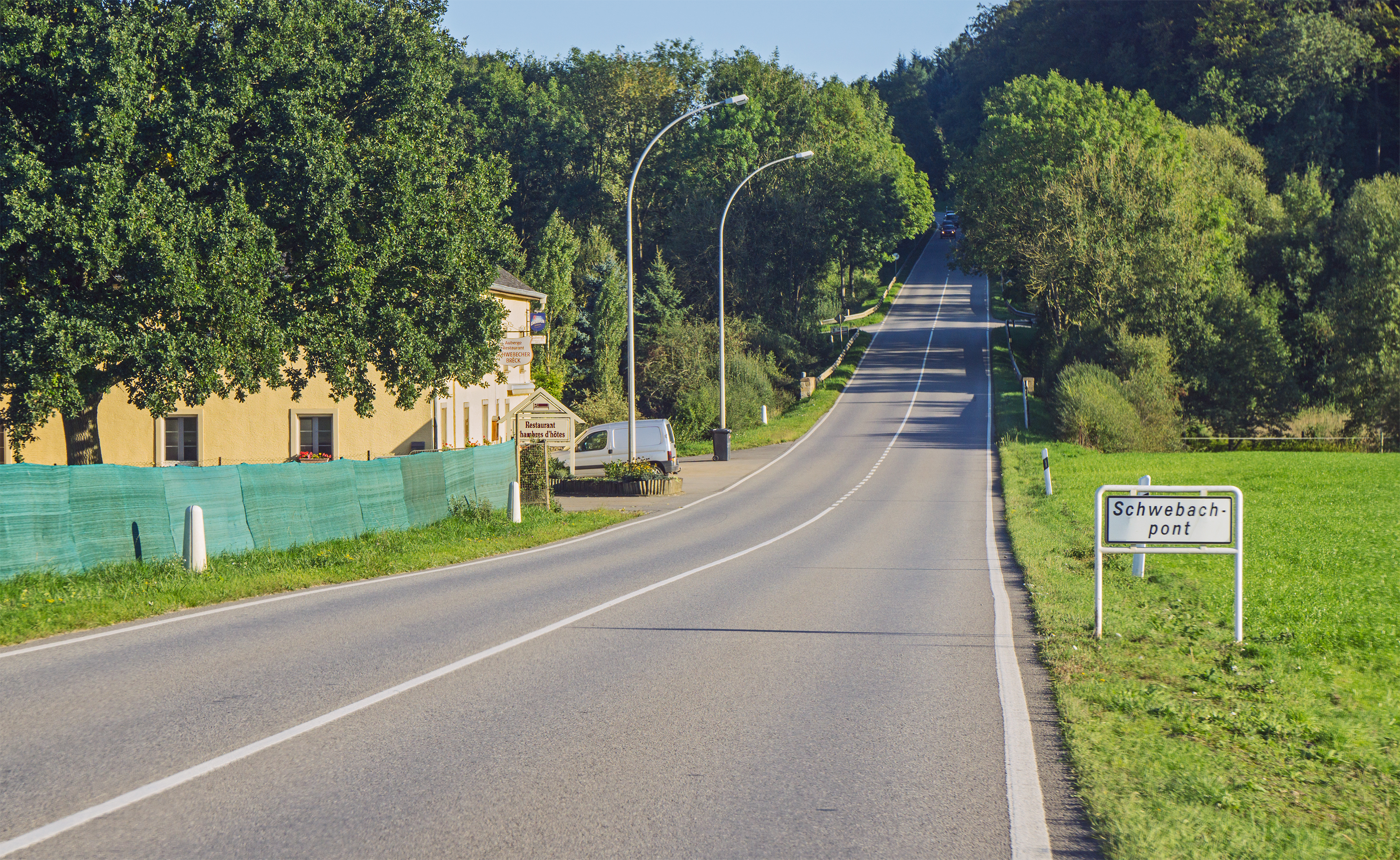 National road 12 in Schwebach-Pont